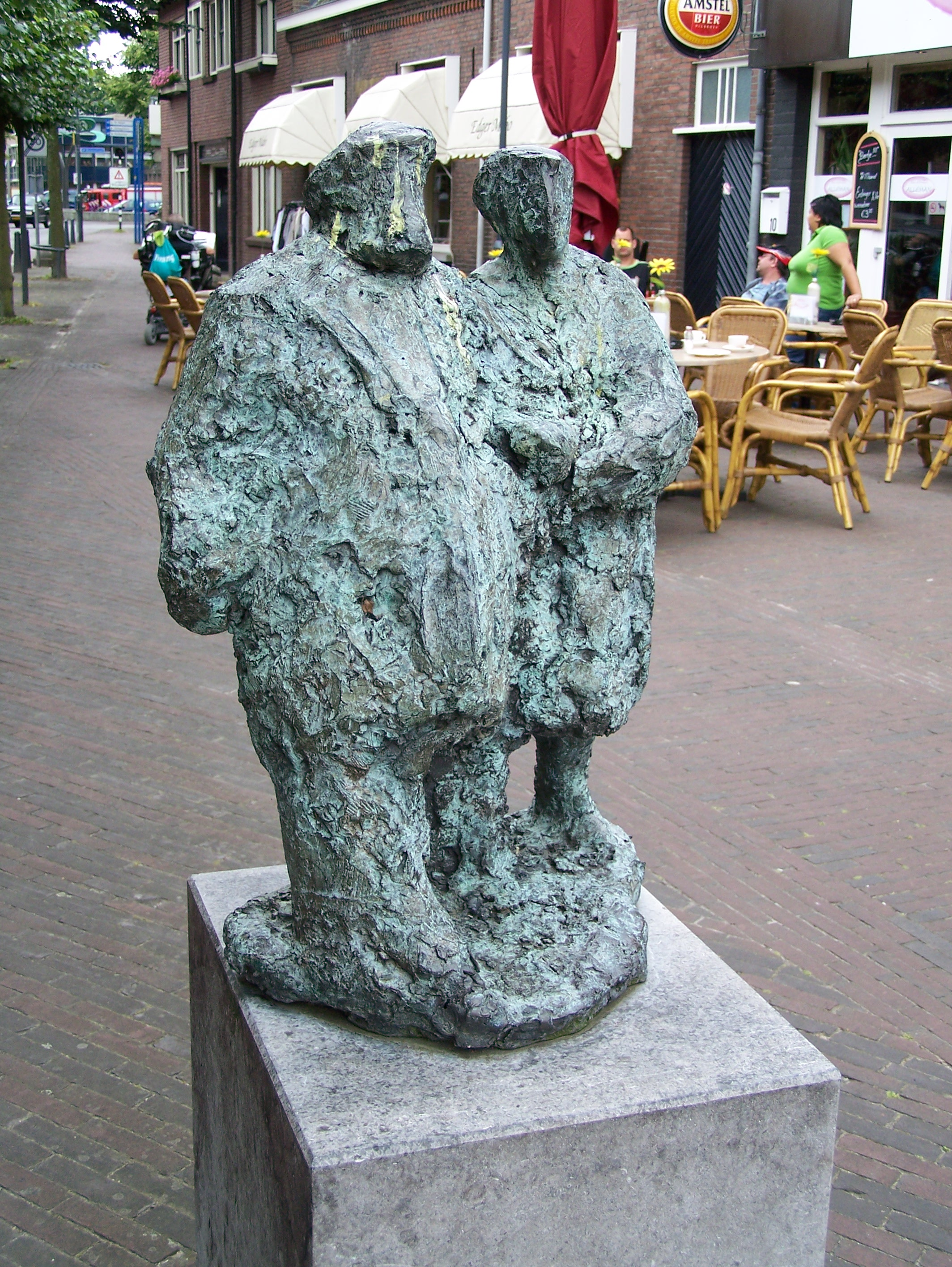 Sculpture "Het Echtpaar", made by Lena van Hoek, designed by sculptor Bart van Hoek. Placed at the Tilburgseweg in Goirle.